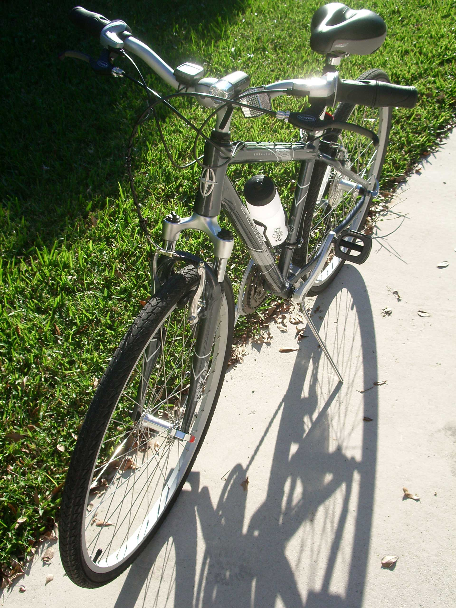 A Schwinn bicycle sold and phtographed in 2005.